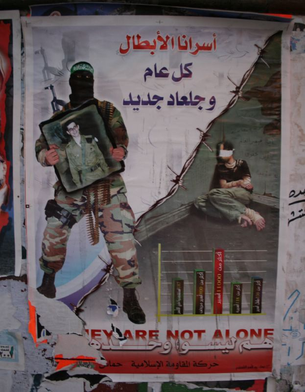 Gilad Shalit on Hamas poster, Nablus said: "Our hero prisoners We hope that Every year and new Gilad" and down :"They (Palestinian prisoners) are not alone"